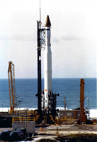 Thorad SLV-2G Agena-D rocket launching POPPY-7 electronic intelligence (ELINT) reconnaissance satellite for the National Reconnaissance Office from Vandenberg Space Launch Complex 1W.